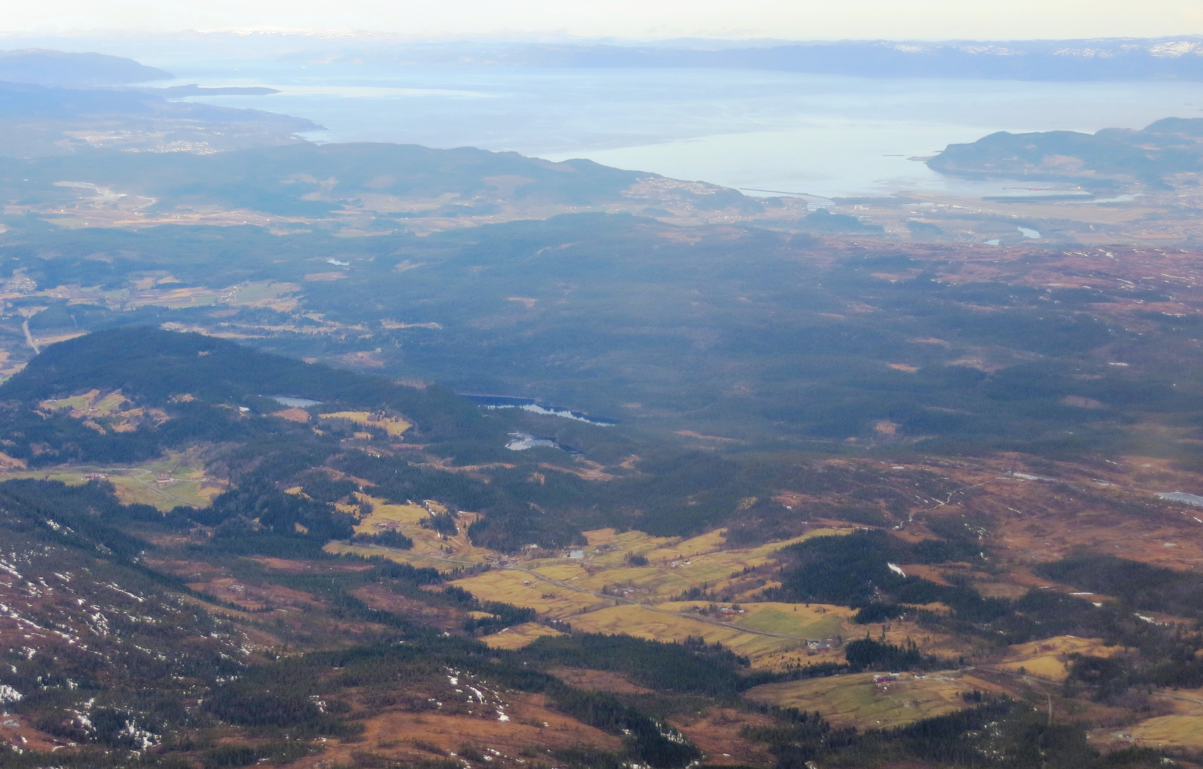 Aerial view from the southern hilly edge of the Stjørdalen valley, in the municipality of Stjørdal - Sør-Trøndelag, Norway